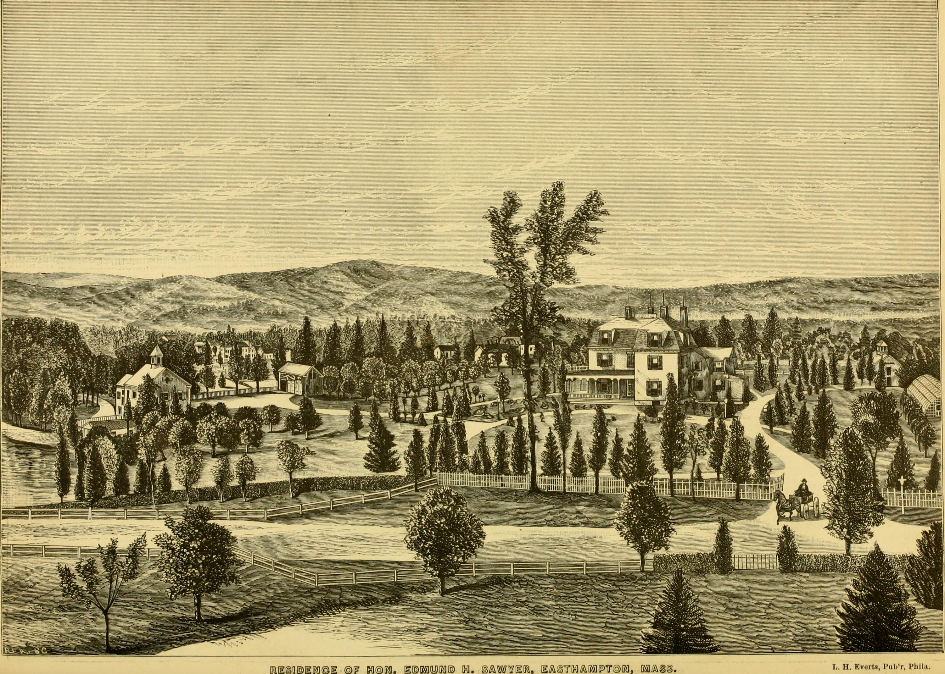 Title: History of the Connecticut Valley in Massachusetts, with illustrations and biographical sketches of some of its prominent men and pioneers Year: 1879 (1870s) Authors: L.H. Everts & Co Subjects: Connecticut River Valley -- History Franklin County (Mass.) -- History Hampshire County (Mass.) -- History Hampden County (Mass.) -- History Publisher: Philadelphia : Louis H. Everts Text Appearing Before Image: e of Broad Brook, where in lateyears Pearson Hendrick lived. Other families in this neighborhood, probably before theRevolution, were Joel Robbins, Benjamin Stephens, and Ben-jamin Strong. With the thirty families thus mentioned, from John Webbdown for a hundred years, there were undoubtedly otherswhose names are not preserved. Perhaps the true pioneer period of a town may be said to bethe time of settlement preceding civil organization. In thecase of Easthampton this is longer than usual, owing to theterritory remaining for many years, both ecclesiastically andcivilly, a part of Northampton. No early assessment-roll of polls and estates seems to bepreserved in the town-clerks office of Easthampton, and acomplete list of settlers at the time of incorporation cannotbe easily made. The names appearing in the proceedings of the early town-meetings are mentioned in the following list, with their loca-tion in town, as far as can be readily stated after the lapse ofnearly one hundred years: Text Appearing After Image: '